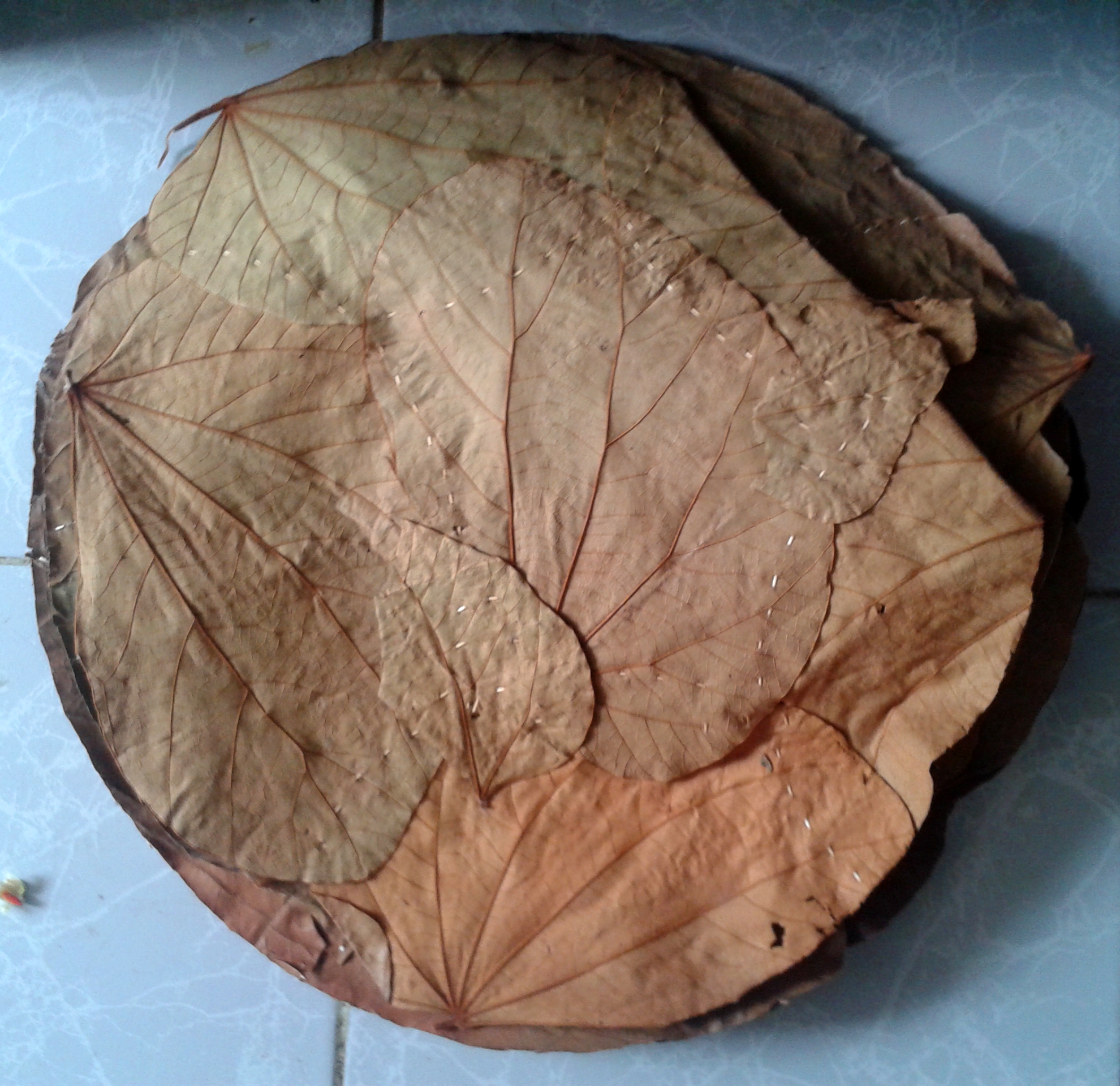 Vistaraku (An Indian eating plate) made with broad dried leaves, Madhurawada, Visakhapatnam